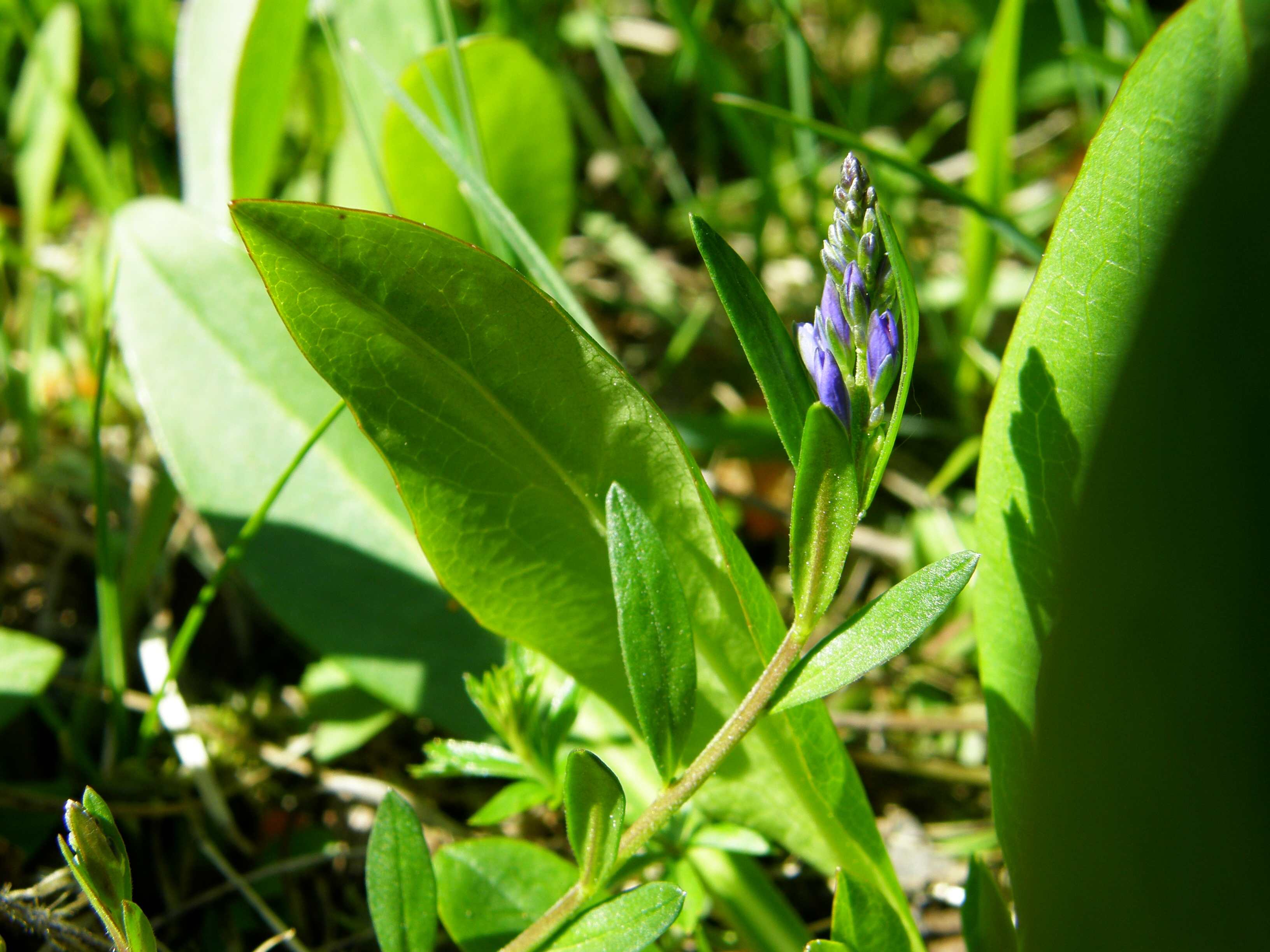 PR (Nature reserve) Vřesová stráň